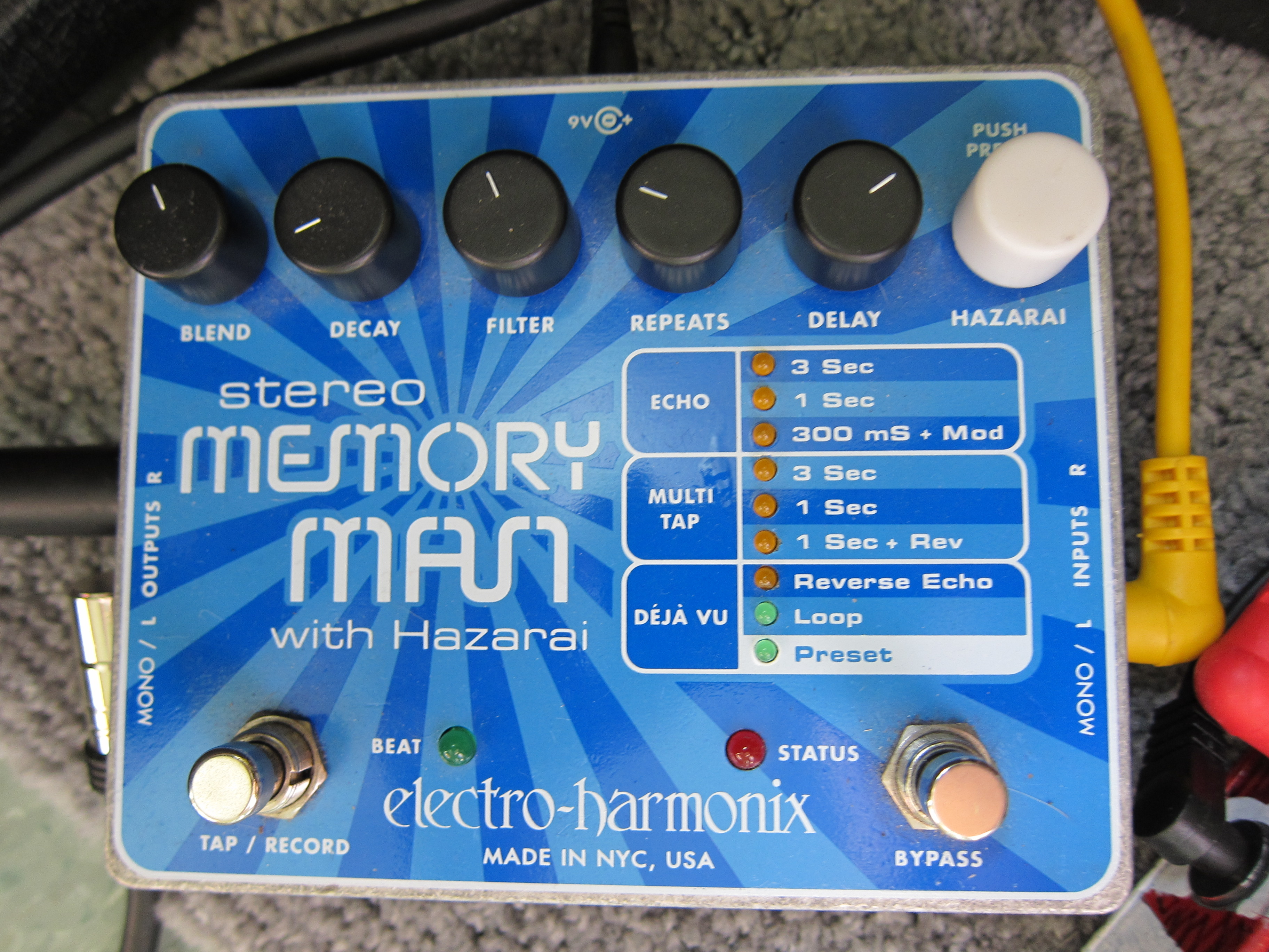 Electro-Harmonix Stereo Memory Man with Hazarai